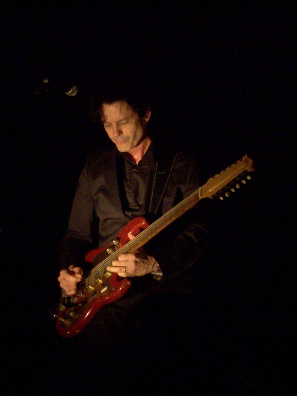 Crowded House performing in Boston - August 5, 2007. Mark Hart, is the multi-instrumentalist current bassist for the band Crowded House. The photo is part of the en.wikipedia Crowded House workgroup.